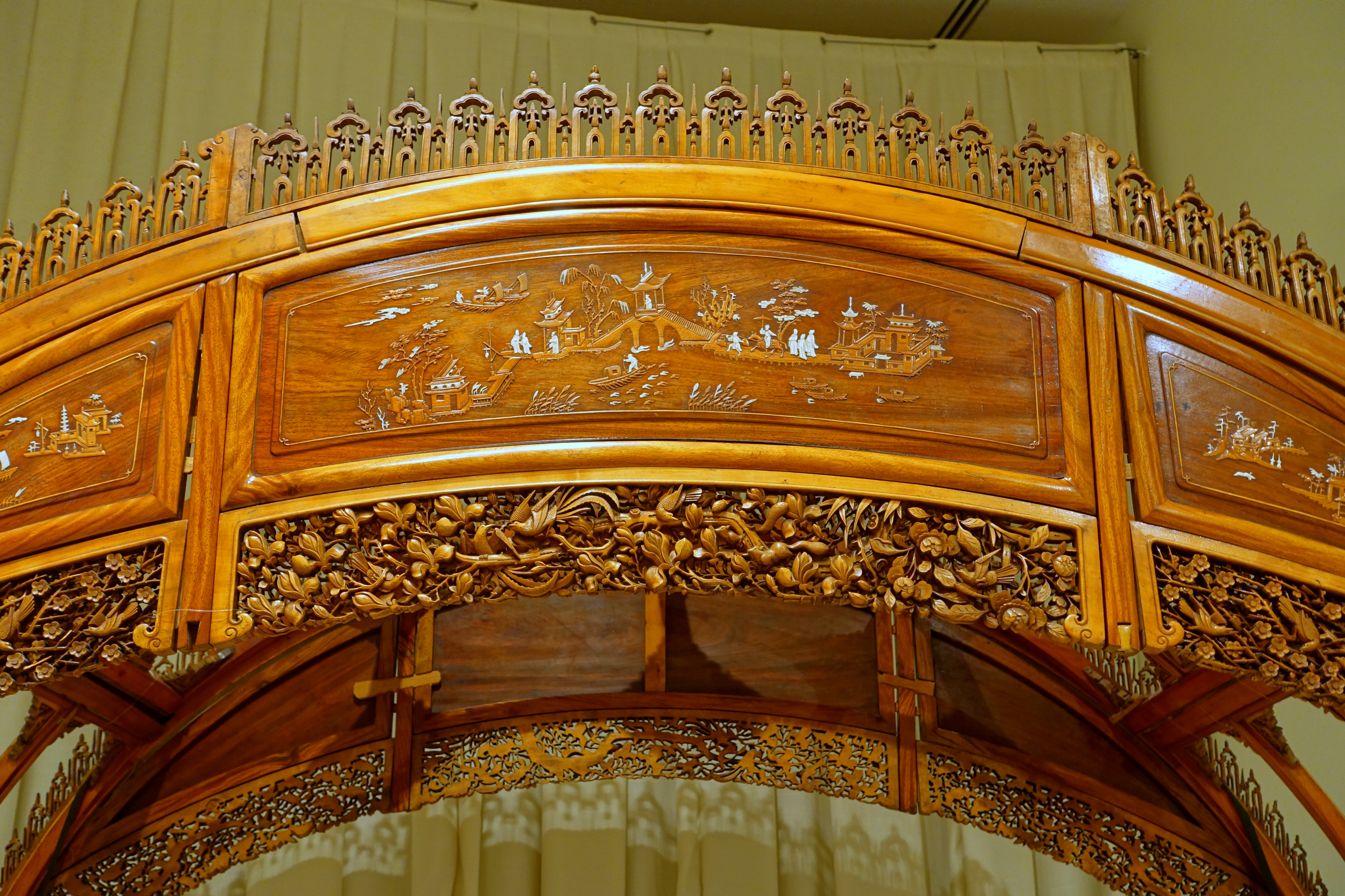 Exhibit in the Peabody Essex Museum - Salem, Massachusetts, USA.